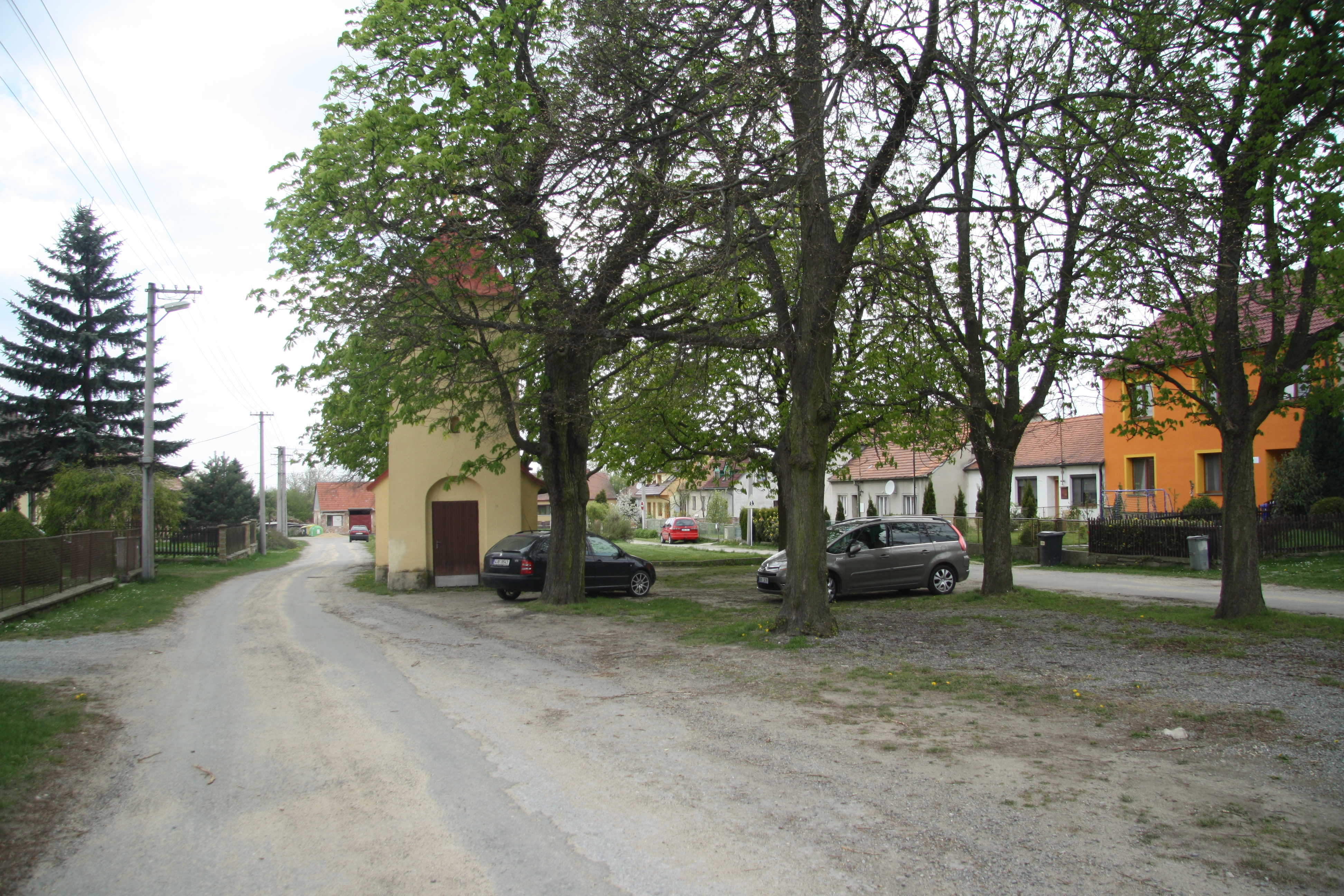 Center of Rapotice, Třebíč District.